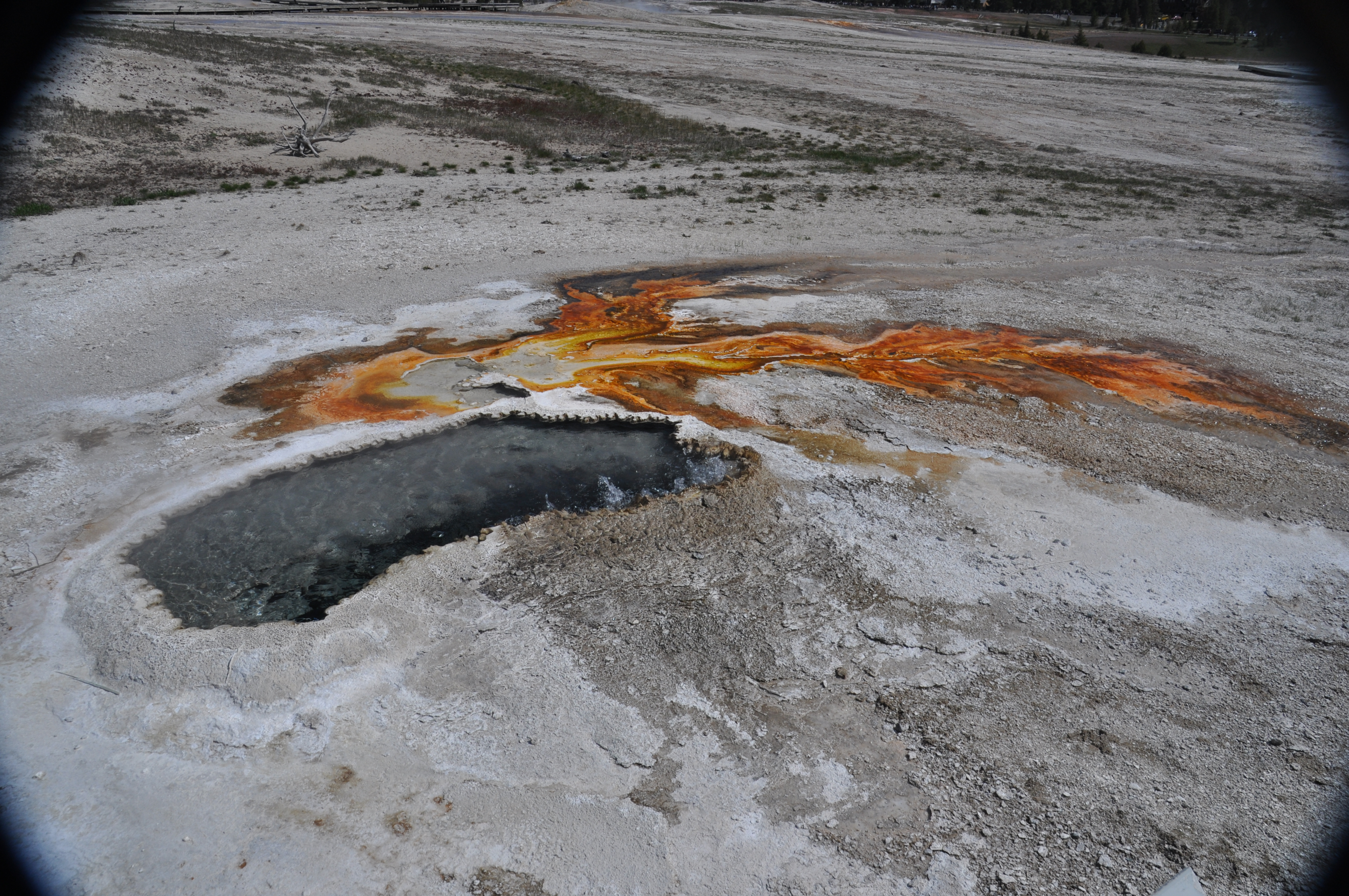 Ear Spring in June 2013, about 5 years before its major eruption.